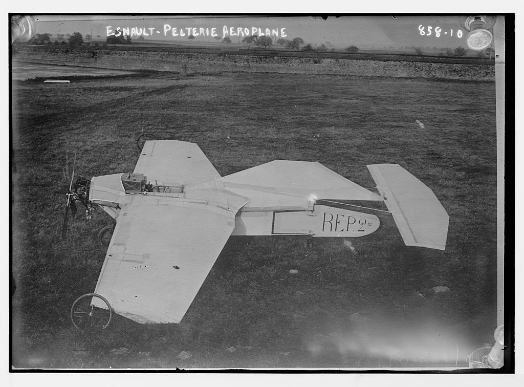 Postcard of Esnault-Pelterie R.E.P. 2 ealry French aircraft.